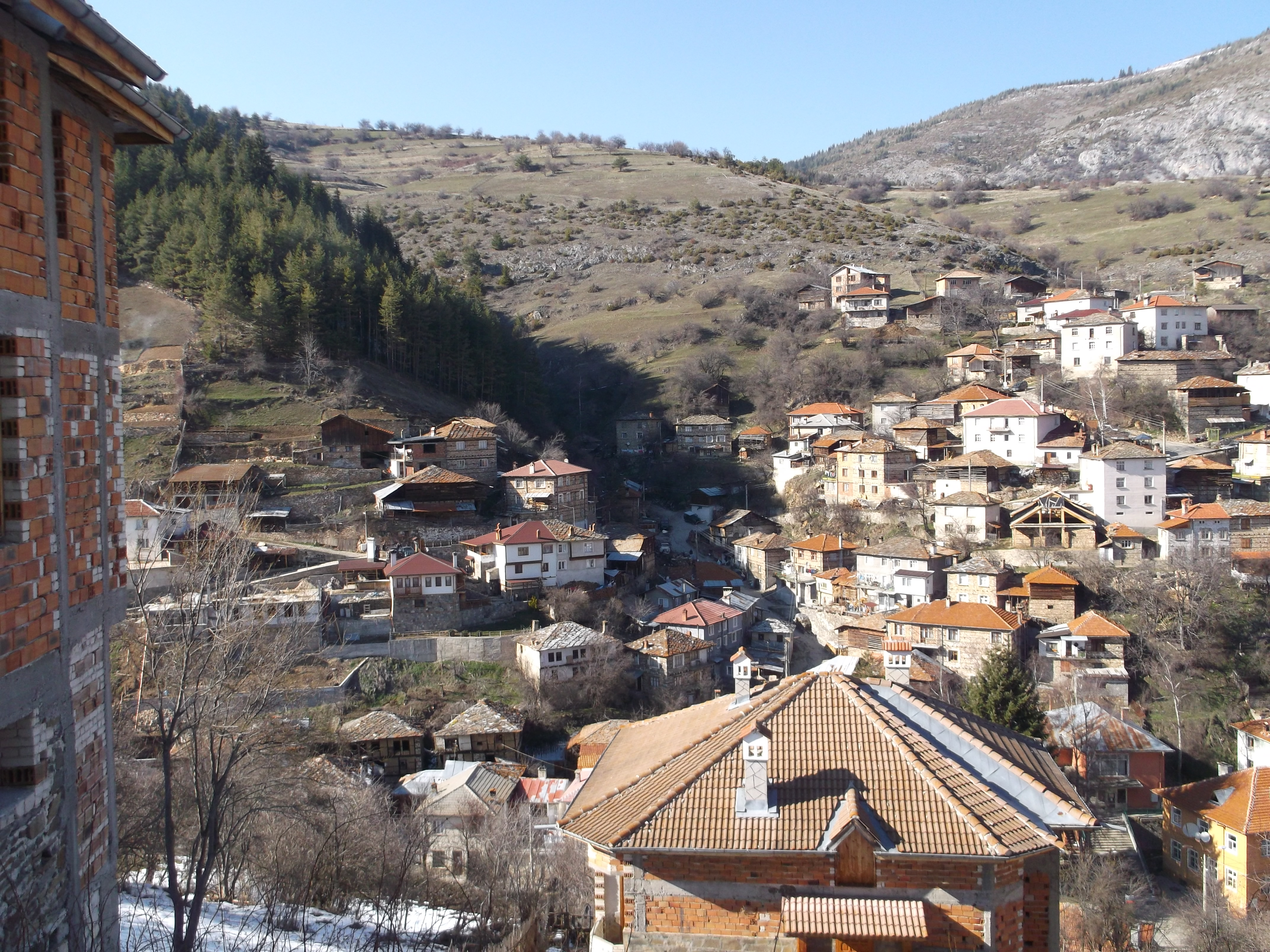 Zabardo new houses 2014.